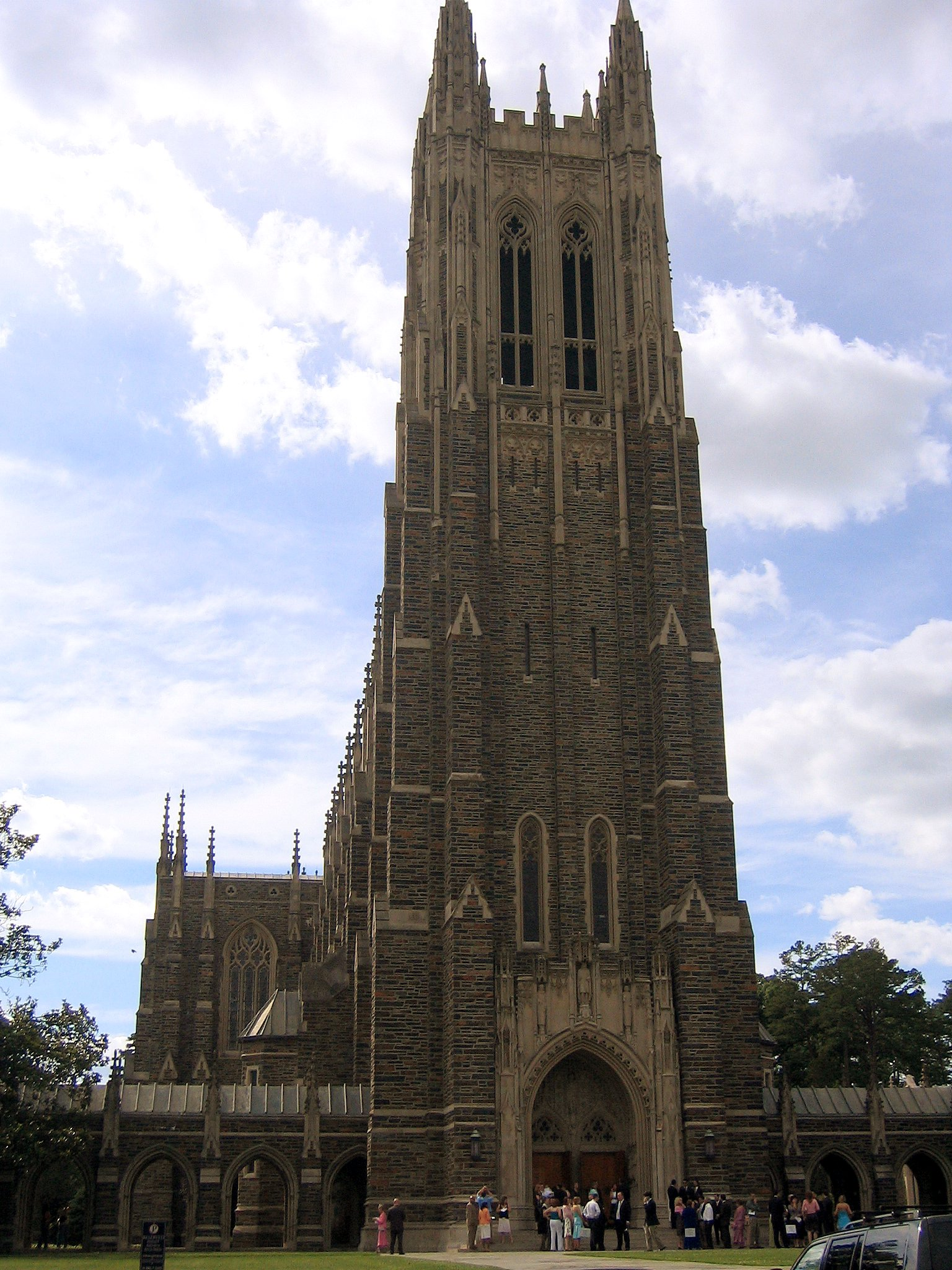 Chapel at Duke University